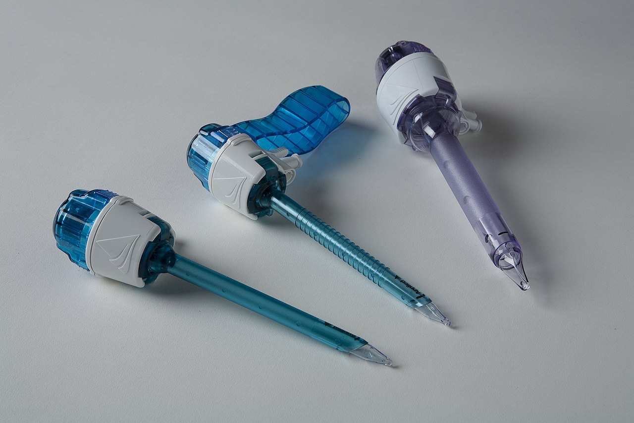 Disposable trocar family